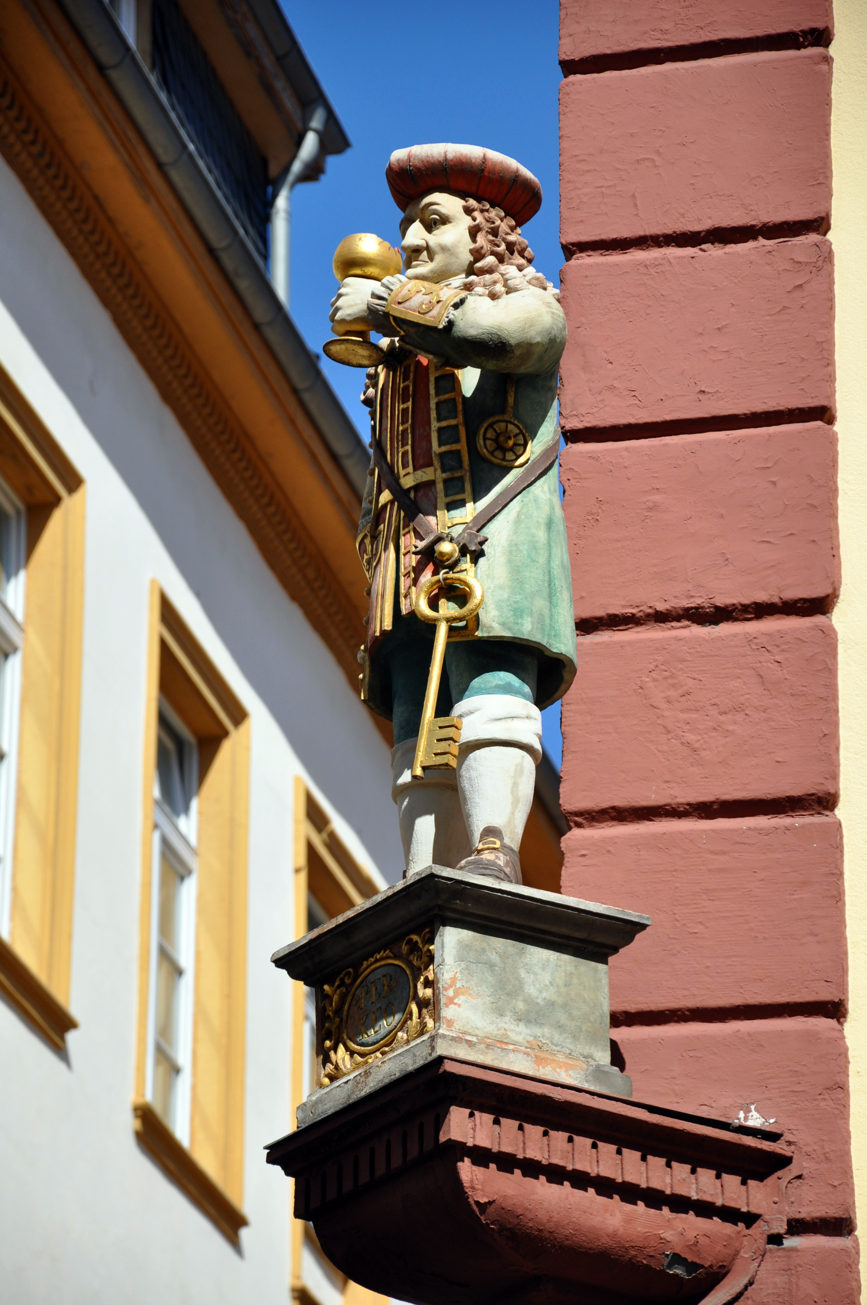 Hauptstrasse (Main Street)